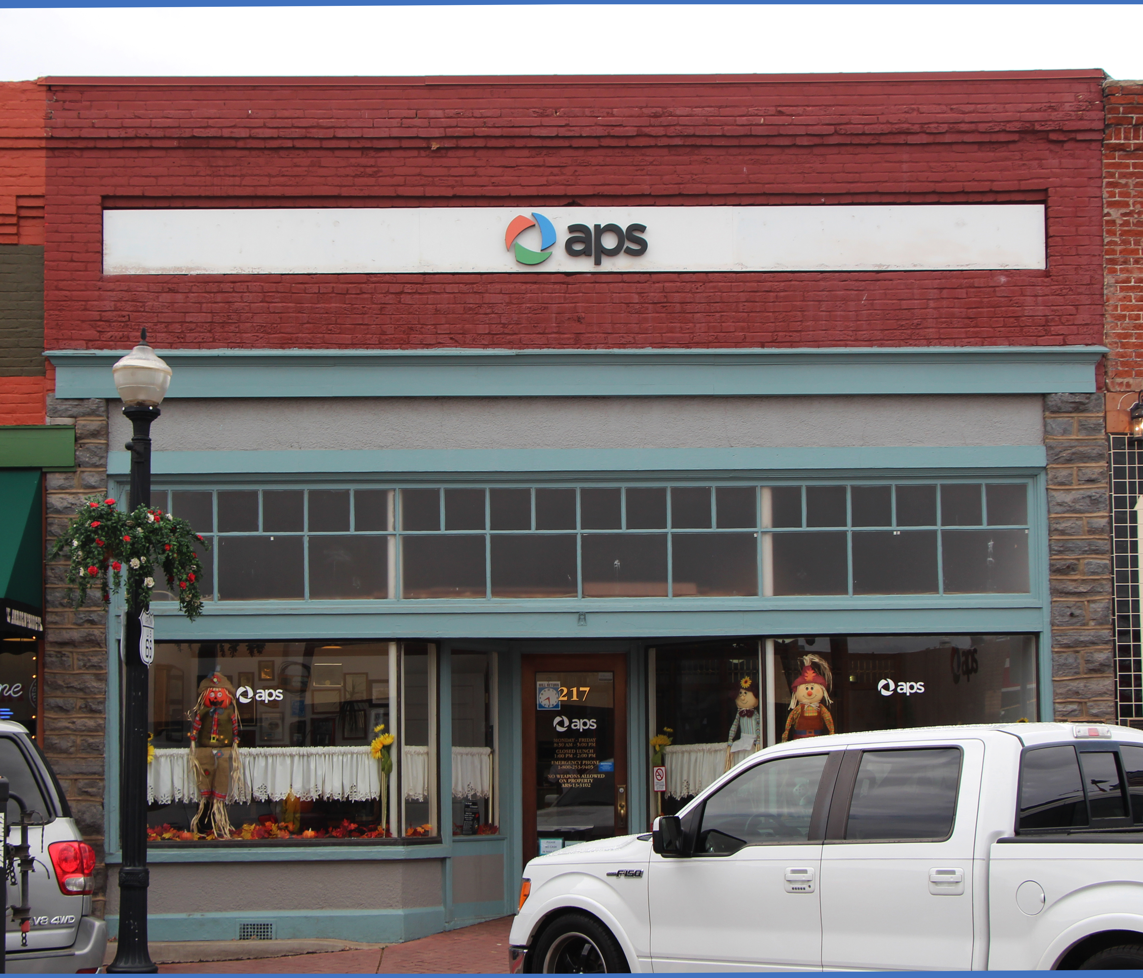 Old Parlor Pool Hall, 217 W. Route 66, Williams, AZ